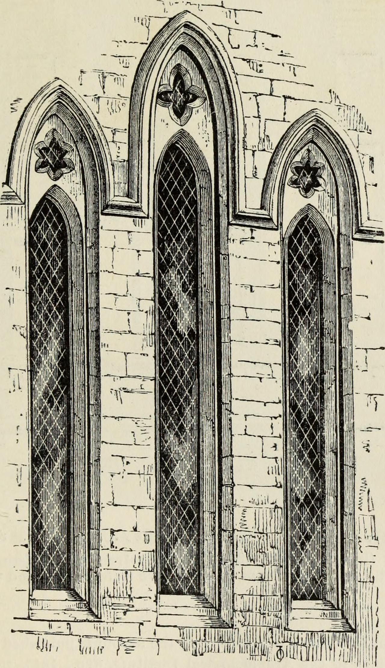 Title: An introduction to the study of Gothic architecture Year: 1877 (1870s) Authors: Parker, John Henry, 1806-1884 Subjects: Architecture, Gothic Publisher: Oxford: J. Parker and Co. Text Appearing Before Image: ghts, with a quatrefoil opening over eachlight, enclosed under the dripstones, which are carriedover each light separately, though the moulding iscontinued from one to the other. At Cotterstock,Northamptonshire, is a two-light lancet window witha pierced quatrefoil in the head, enriched with ele-gant cusps. In the Kings Hall at Winchester (97) the windowsare each of two lights, with an open quatrefoil in thehead; and there are sunk panels on each side of thewindows, to fill up the blank space between them andthe buttresses. The Hall of the Eishops Palace atWells (98), built by Bishop Jocelyne between 1225 and1239, also has windows with foliated circles in the o For these three examples I am indebted to Mr. Freemans work on the*Origin and Development of Window Tracery in England, 8vo., Oxford,1851, which contains some hundreds of examples arranged systematically. PROGRESS OF TRACERY, heads of quite as advanced a character. In the tran-sept of Salisbury Cathedral, built between 1220 and Text Appearing After Image: 96. ¥11111)01116 Minster, Dorset, c. 1220.Shewing an early stage of plate-tracery. 1250, is a good example of a window of four lancet-lights, with dripstone mouldings connecting them intoone window of two divisions, each of two lights, withan open quatrefoil in the head, and a larger foliated PROORESS OF TRACERY